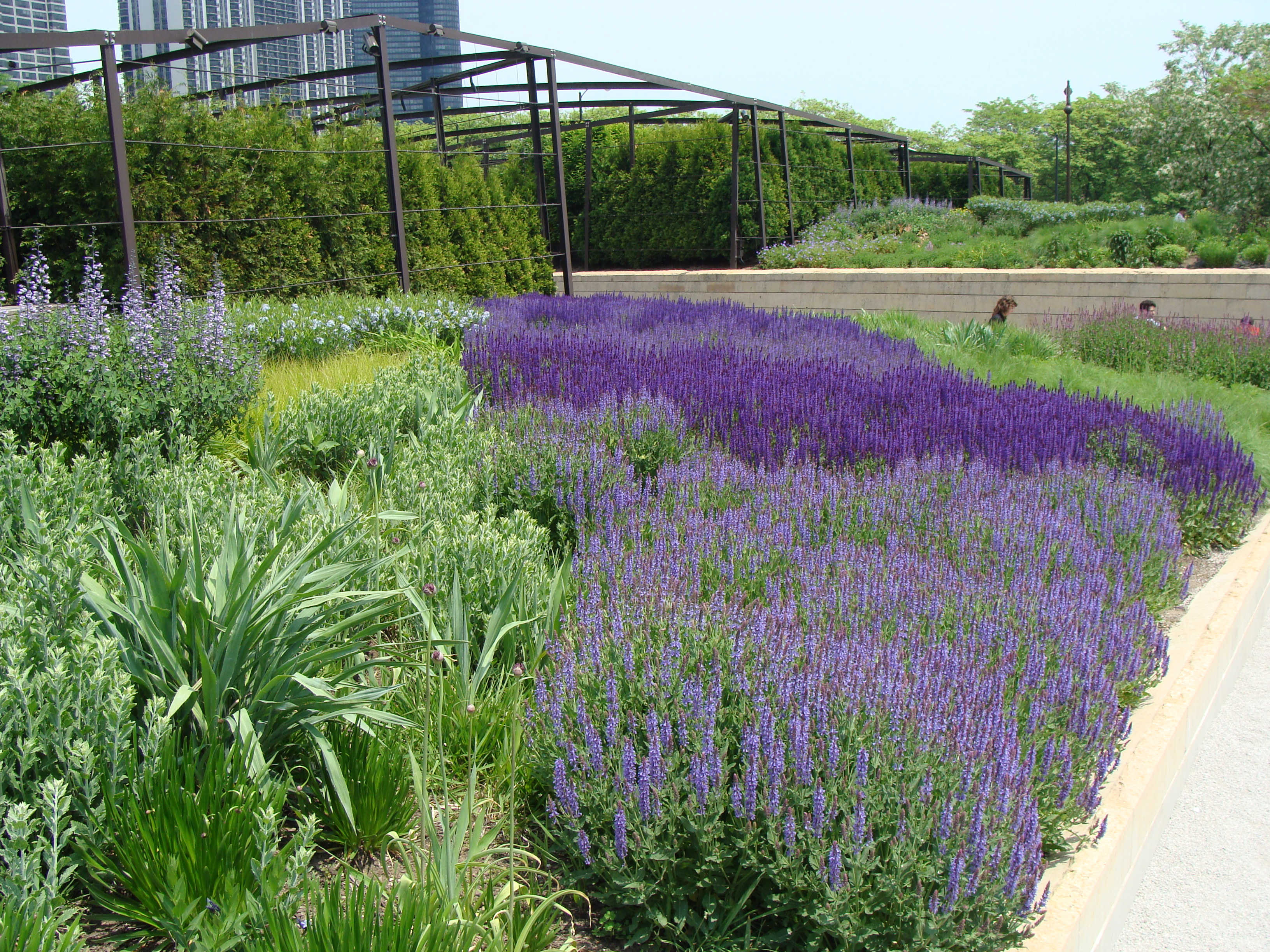 Lurie Garden in Millennium Park